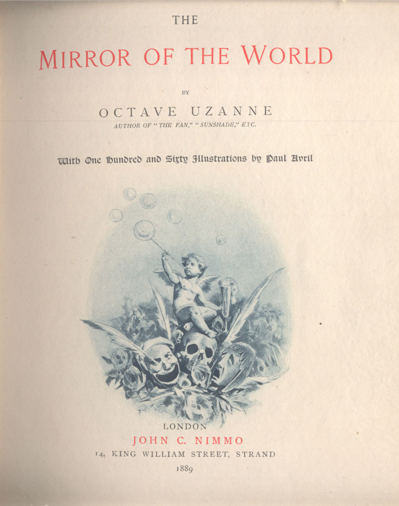 Octave Uzanne: The Mirror of the World, with one hundred and sixty illustrations by Paul Avril. London: John C. Nimmo, 1889